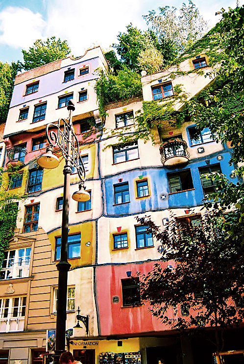 Austria, Vienna, Hundertwasserhaus